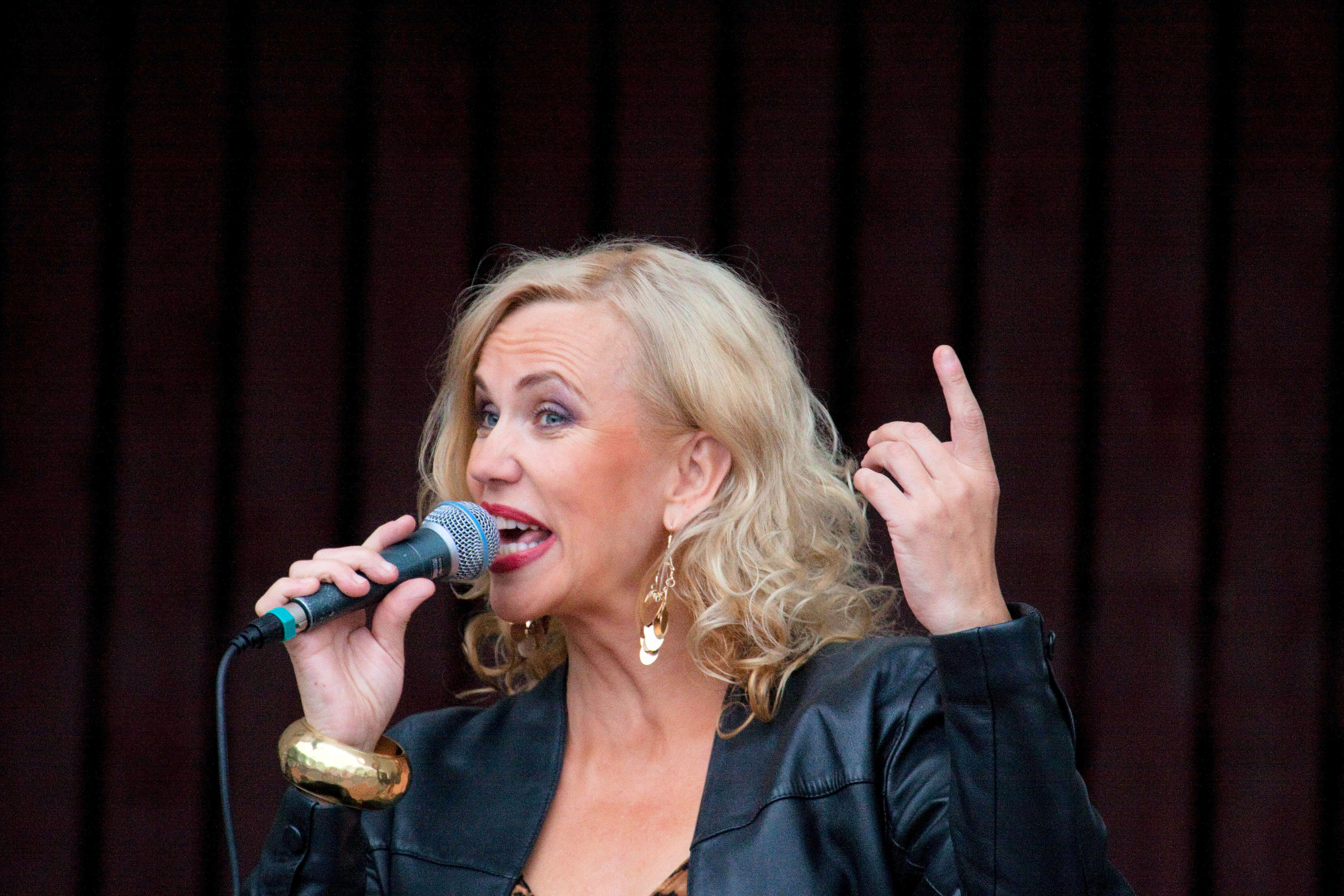 Kaija Lustila finnish singer